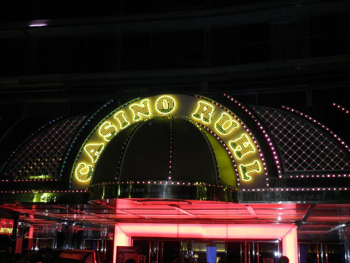 Entrance of Casino Ruhl in Nice, France, by night, on May 7, 2014